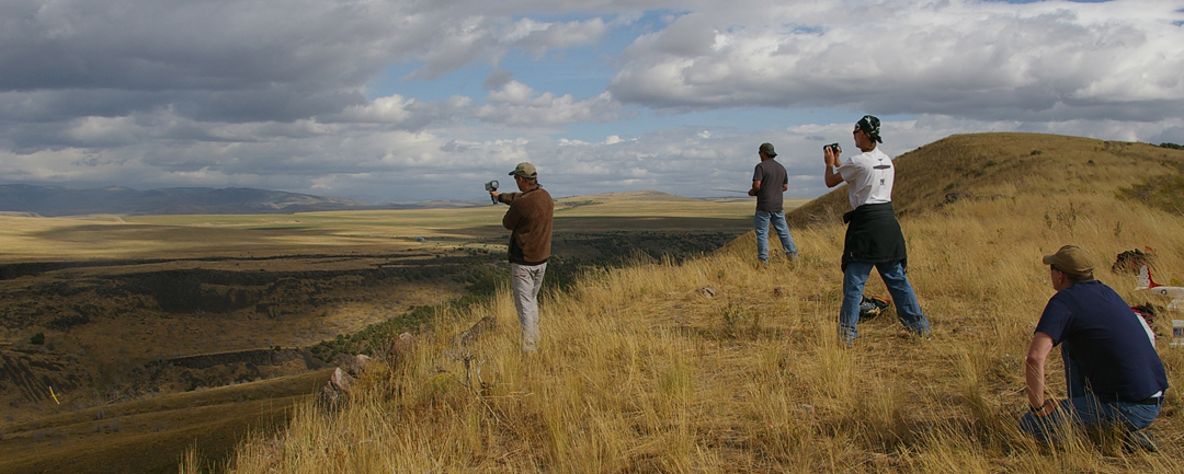 Photo taken by David P. Johnson at Kepp's Crossing dynamic soaring site, near Idaho Falls, ID. Shows pilot flying radio control glider called the Shockwave, at about 270 mph. Note radar gun for determining speed. Hermanoere (talk) 04:55, 29 November 2010 (UTC)